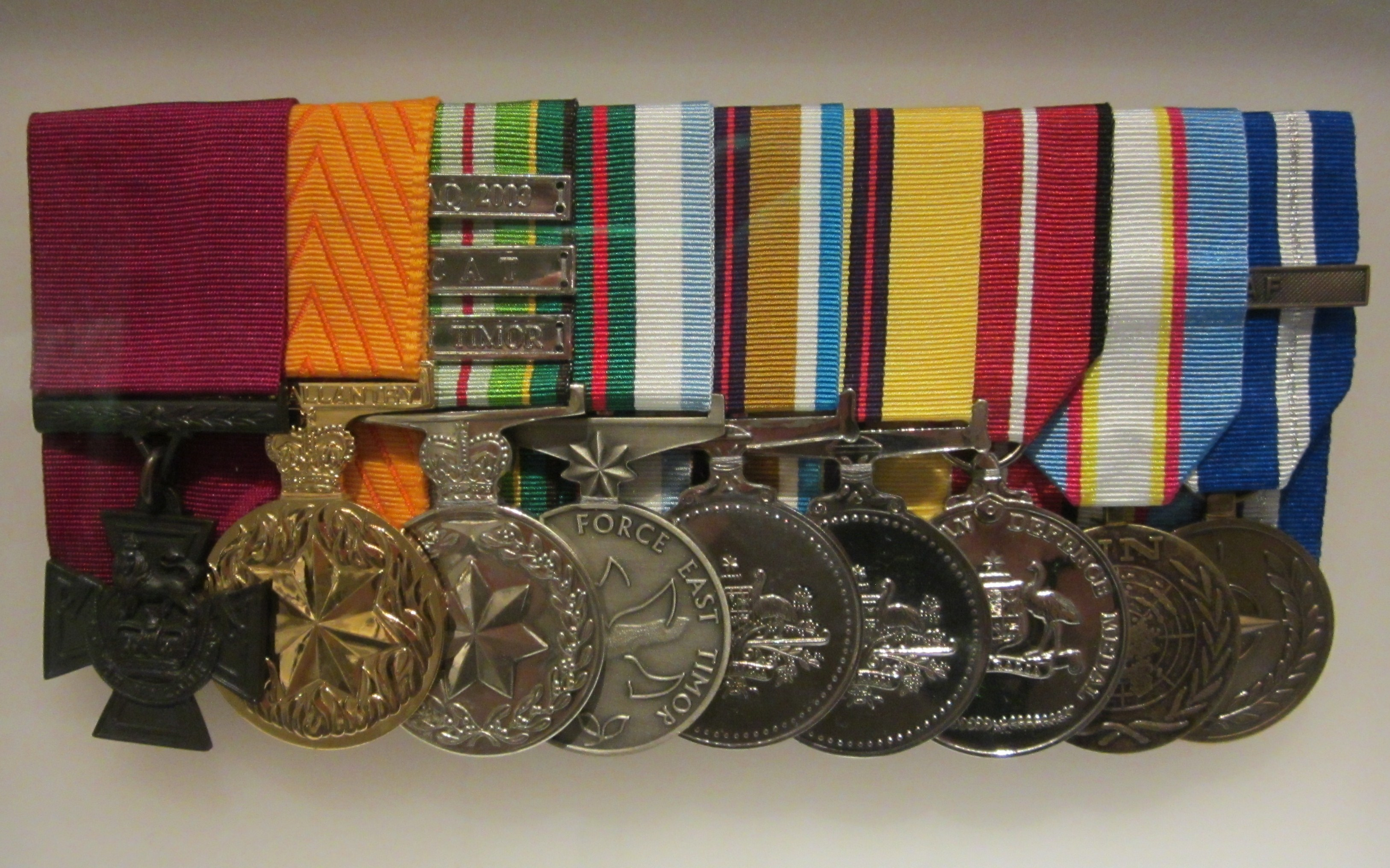 Ben Roberts-Smith's medals on display at the Australian War Memorial in December 2011